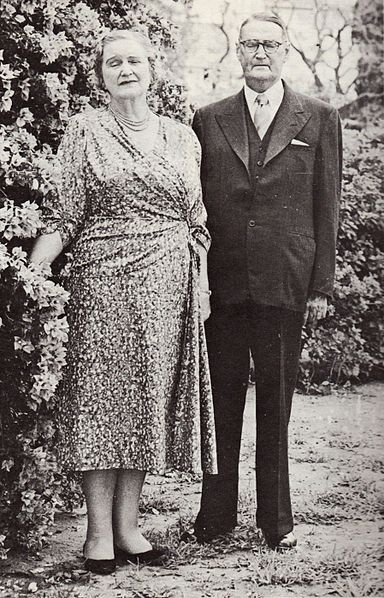 Martha Mabel Pellissier (south african educator, author, journalist, cultural leader) and her husband Ernest Jansen, Governor-General of the Union of South Africa.